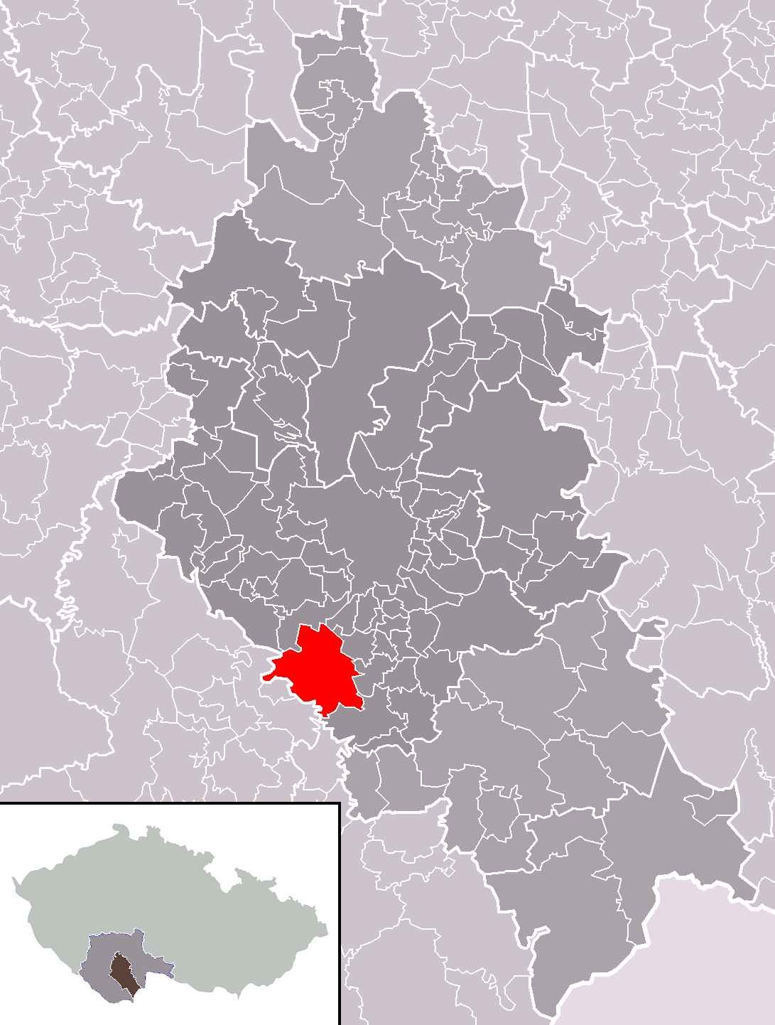 Location of Kamenný Újezd municipality within České Budějovice District and administrative area of České Budějovice as a Municipality with Extended Competence.